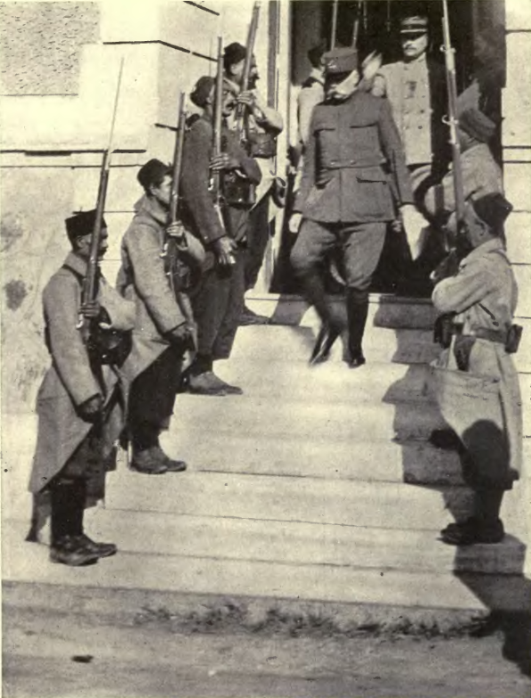 French general Sarrail at Saloniki, Greece